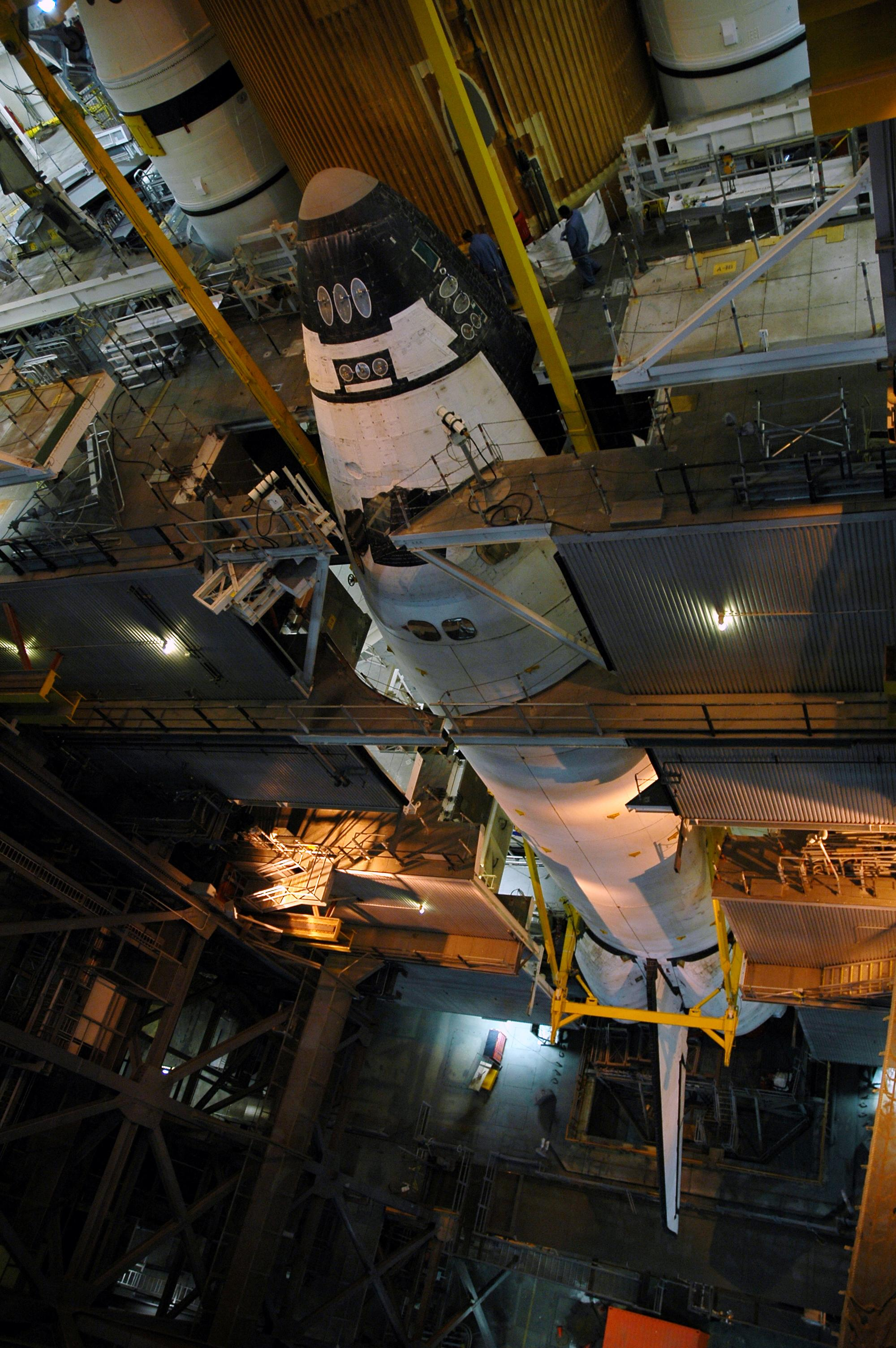 In high bay 3 of the Vehicle Assembly Building, the orbiter Atlantis has been lowered onto the mobile launcher platform below for mating with the external tank and solid rocket boosters already in place. After the stacking, Atlantis will undergo a shuttle interface test and other prelaunch processing. Atlantis' launch window begins Aug. 28.